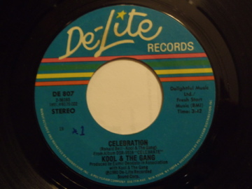 The 45 RPM Single of Kool & The Gang's "Celebration"